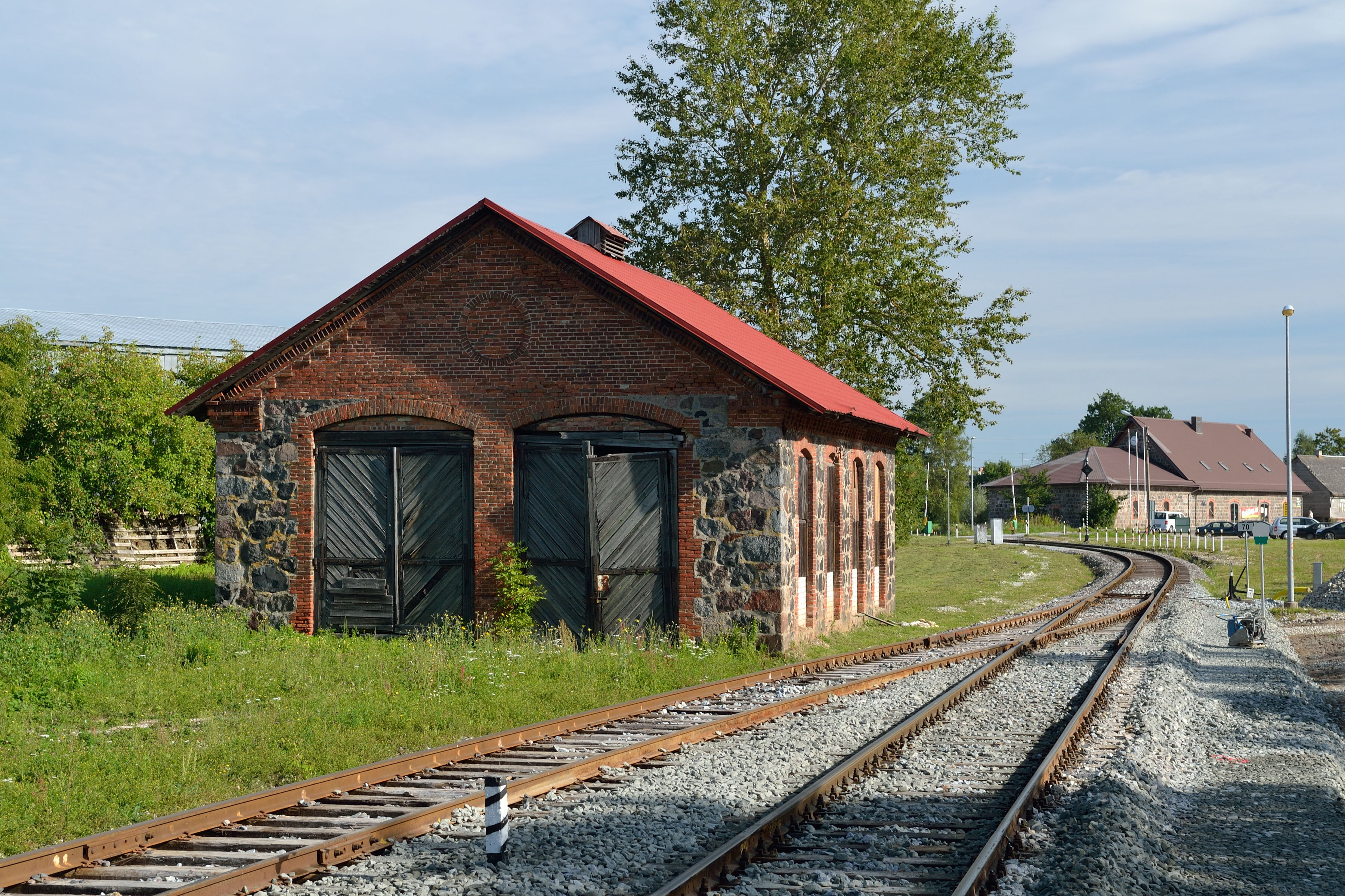 Viljandi station depot, built in the end of 19. century